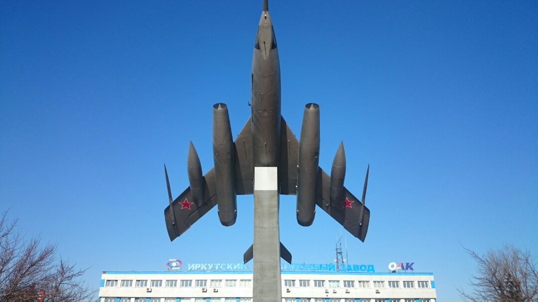 Yakovlev Yak-28, combat aircraft used by the Soviet Union. Location at Irkutsk Aircraft Plant in Transbaykal region.